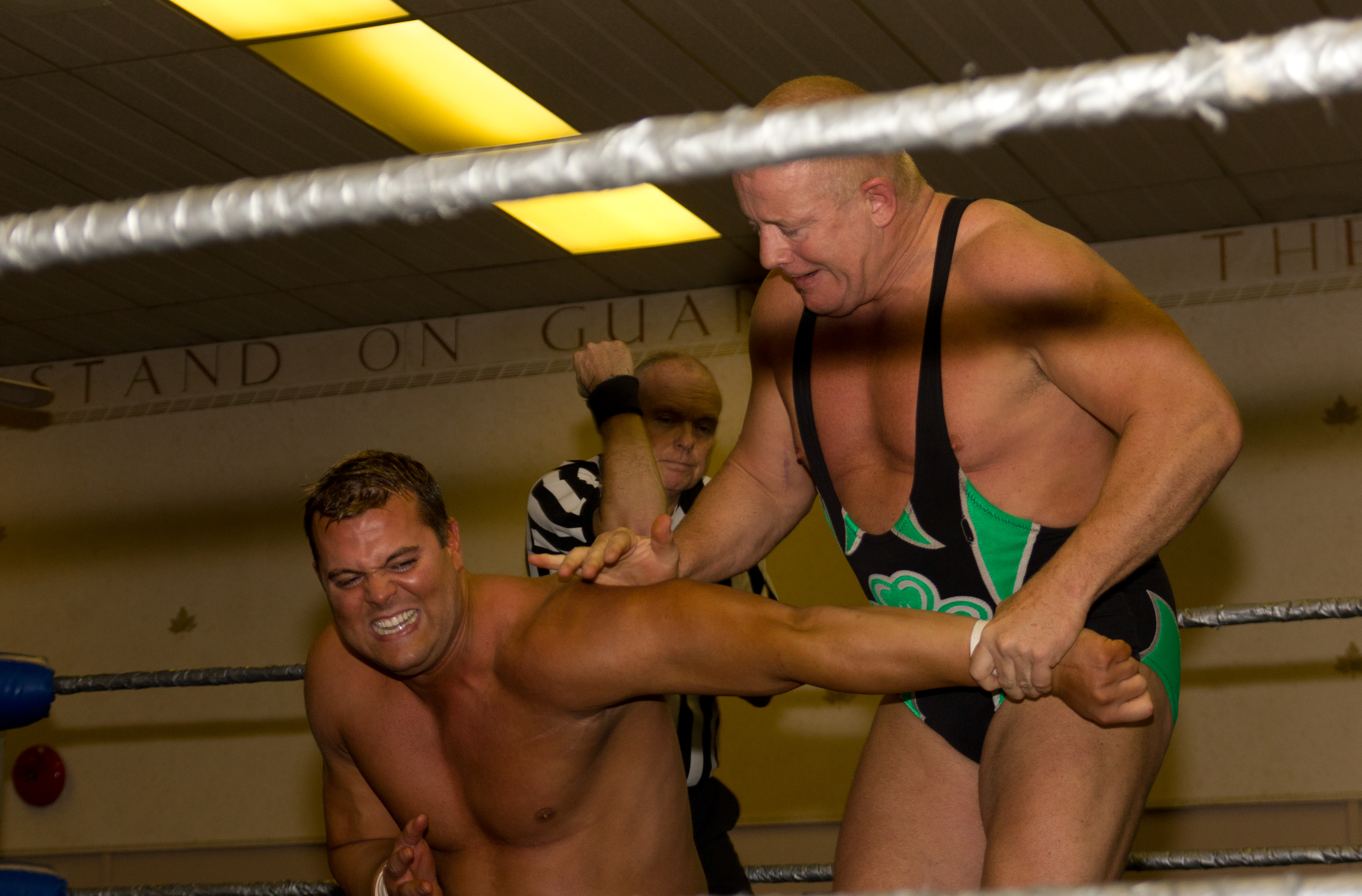 Fit Finlay applies an armbar to Harry Smith in the main event of Stampede Wrestling's 6th November 2011 show.